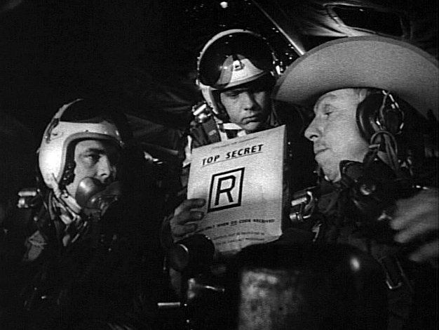 Capt. "Ace" Owens (Shane Rimmer), Lt. Dietrich (Frank Berry), and Major T. J. "King" Kong (Slim Pickens) about to open Wing Attack Plan R in Stanley Kubrick's 1964 film, Dr. Strangelove.